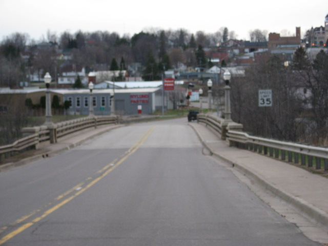 M-69 entering Crystal Falls, Michigan.